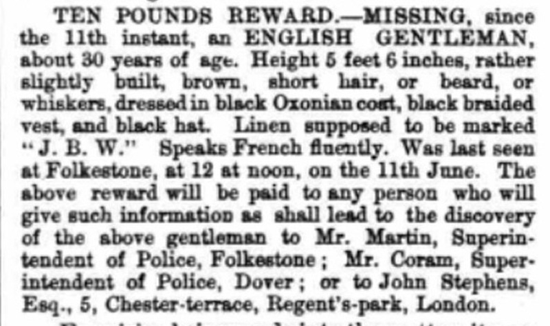 Advertisement for information on the disappearance of James Beaumont Winstanley 1862